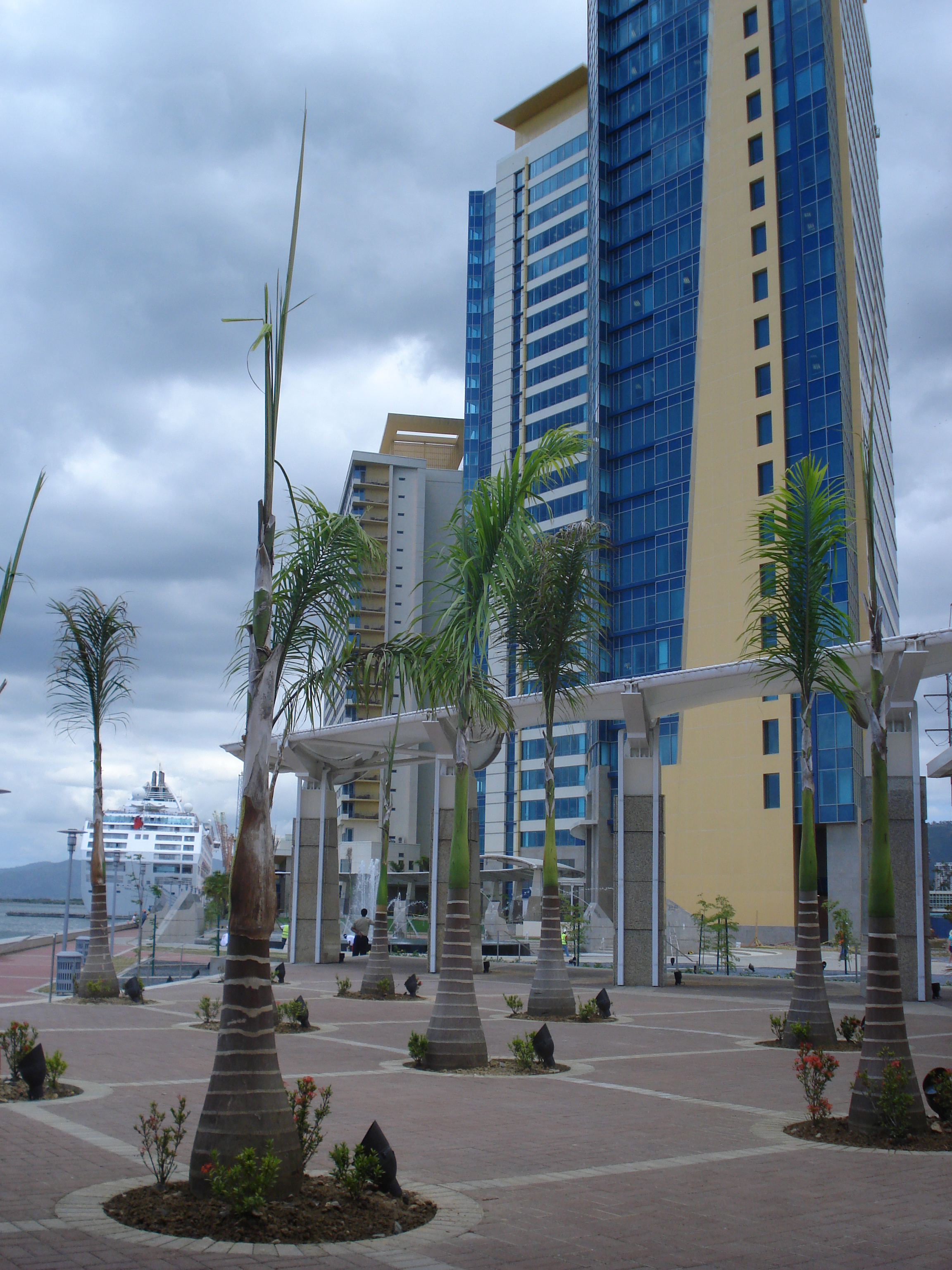 City Waterfront plaza park — in Port of Spain.